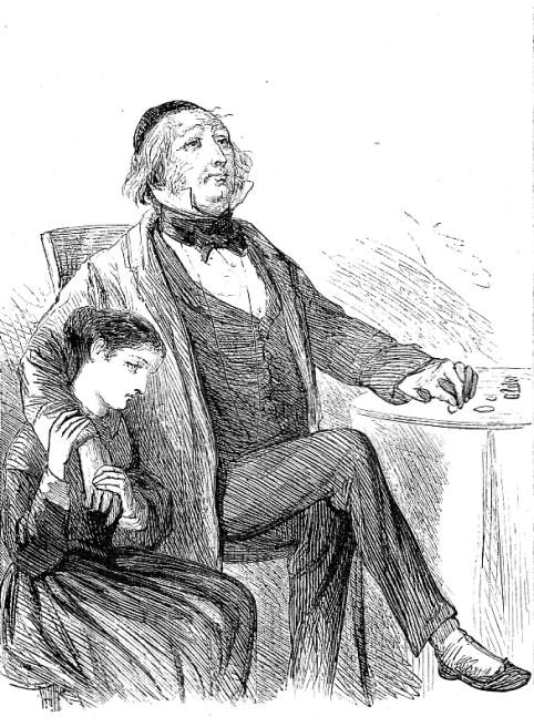 Little Dorrit and her Father